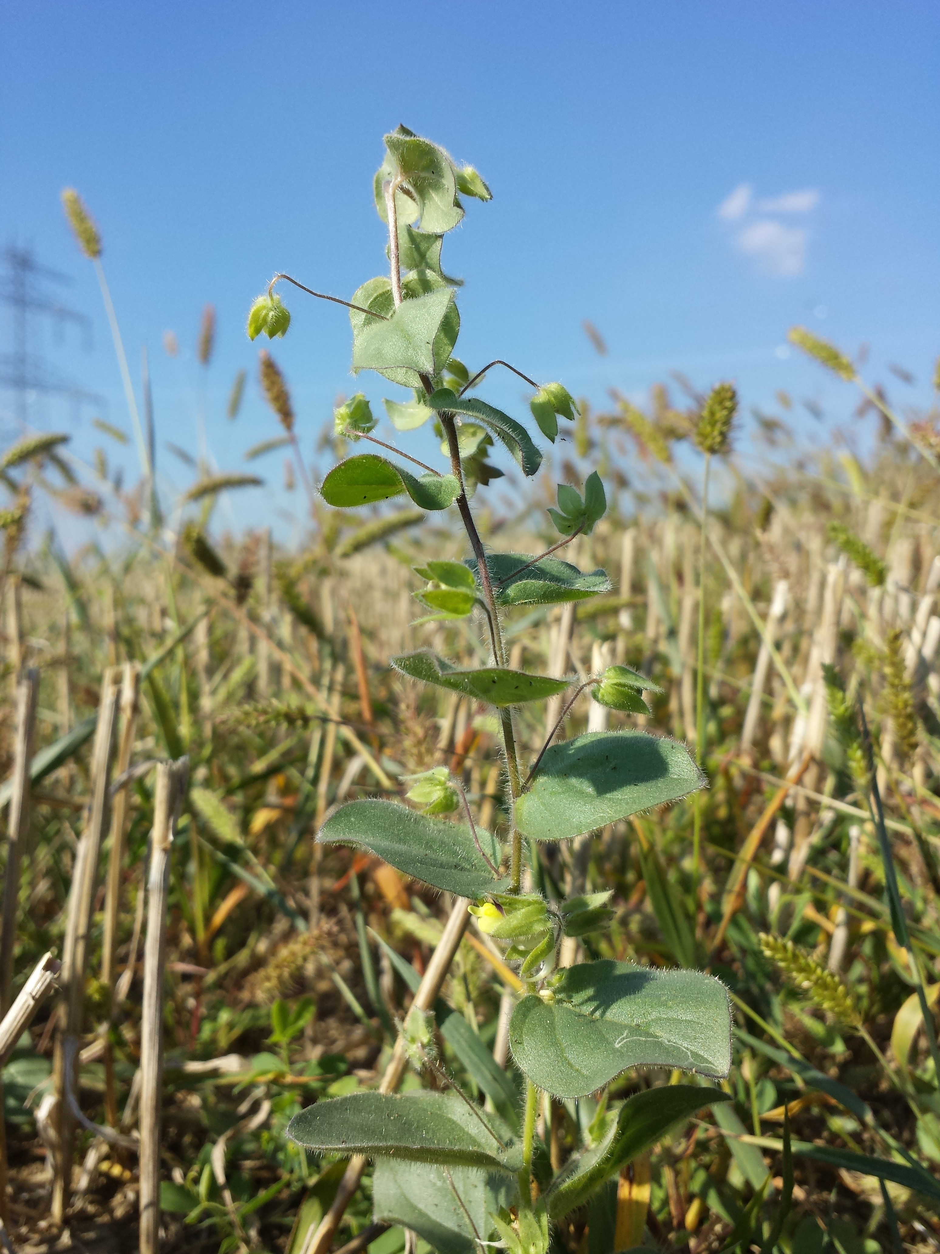 Habitus Taxonym: Kickxia spuria ss Fischer et al. EfÖLS 2008 ISBN 978-3-85474-187-9 Location: Steinberg near Niederhollabrunn, district Korneuburg, Lower Austria - ca. 375 m a.s.l. Habitat: field